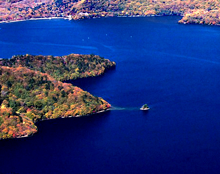 Japan: lake Chūzenji's Kōzuke island in Nikkō (Tochigi prefecture).